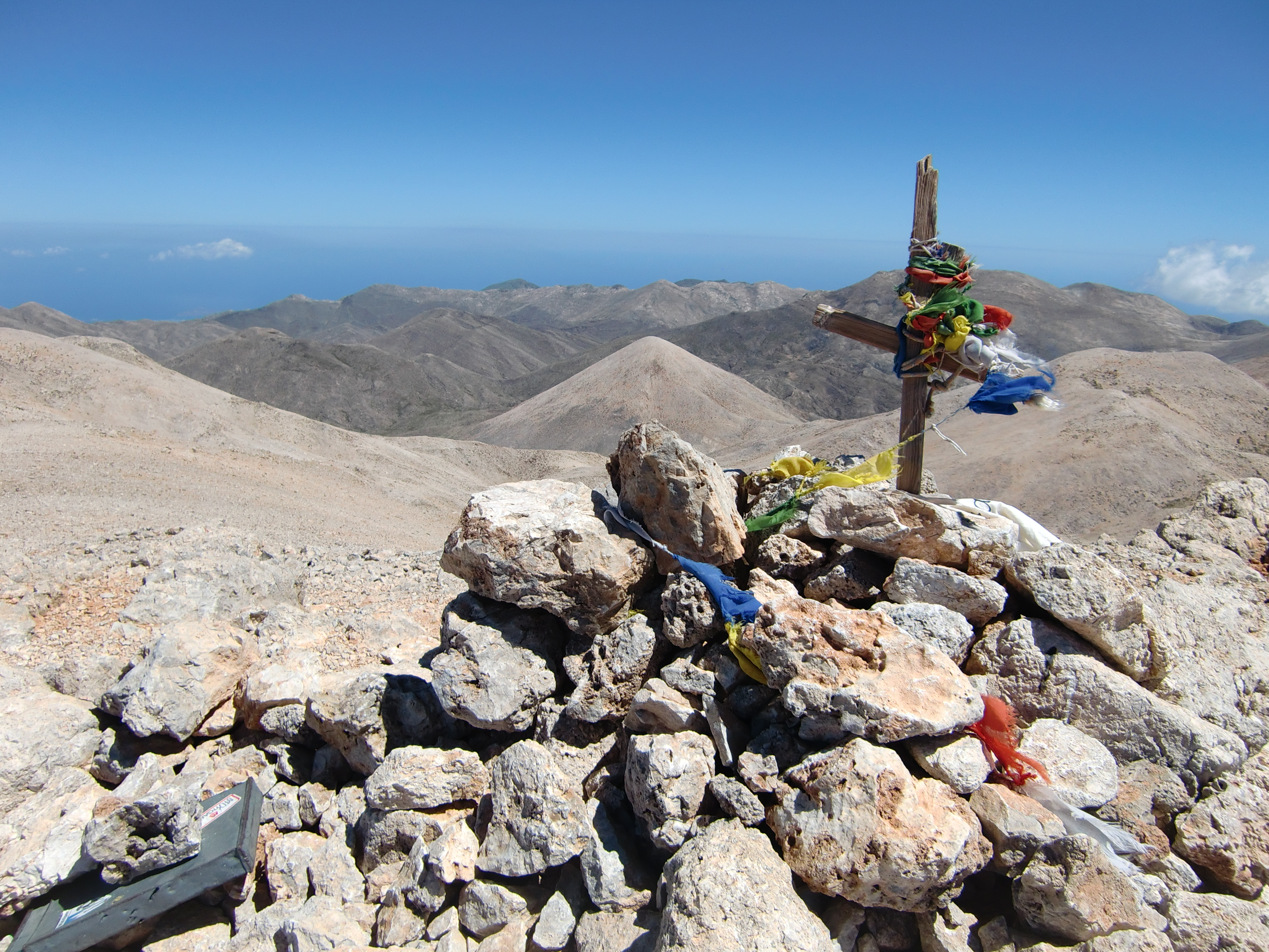 Mount Pachnes summit, view of the Lefka Ori to the north.